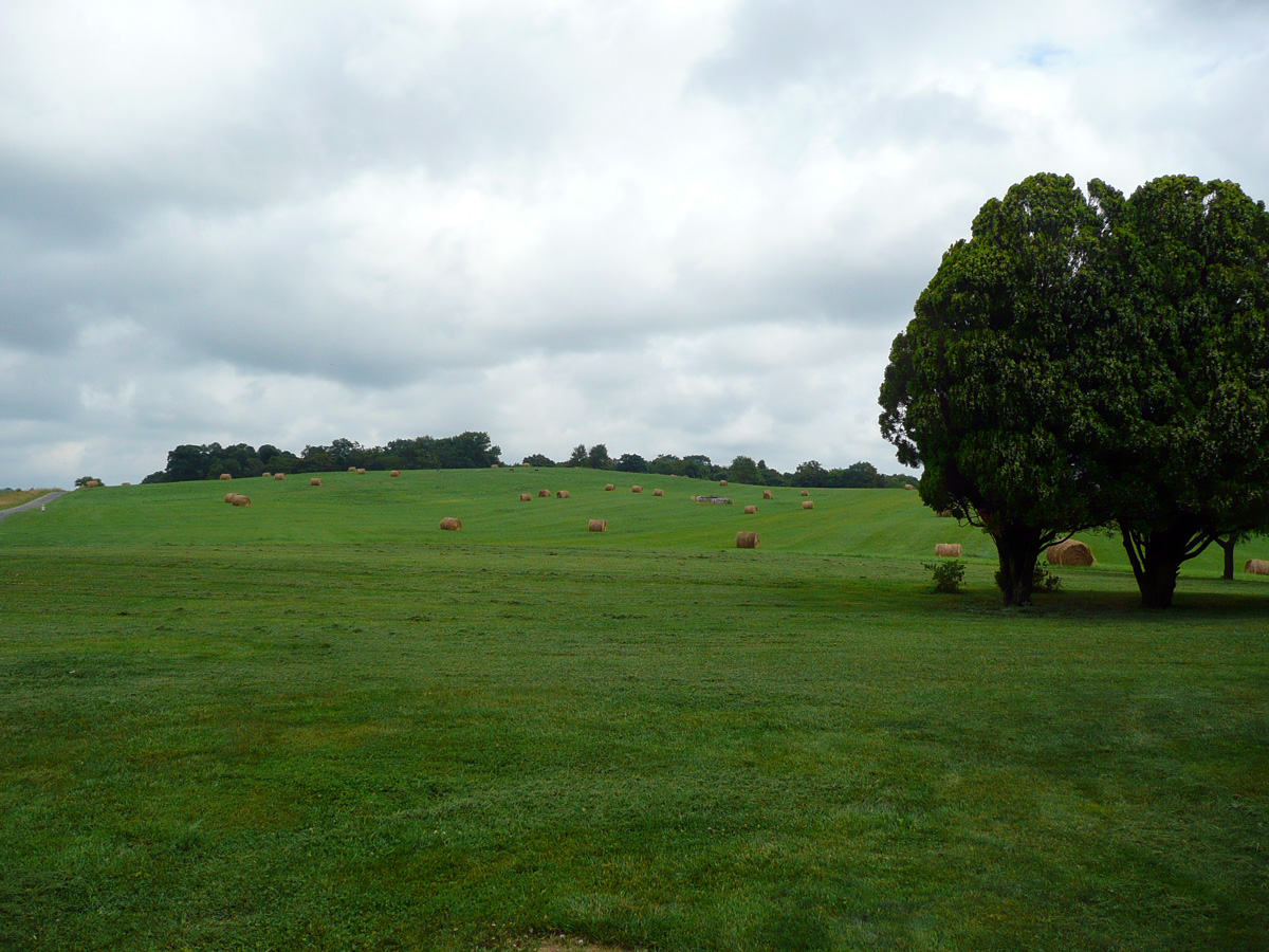 Photograph of Pritchard Hill on the battlefield of the First Battle of Kernstown, Virginia, American Civil War.